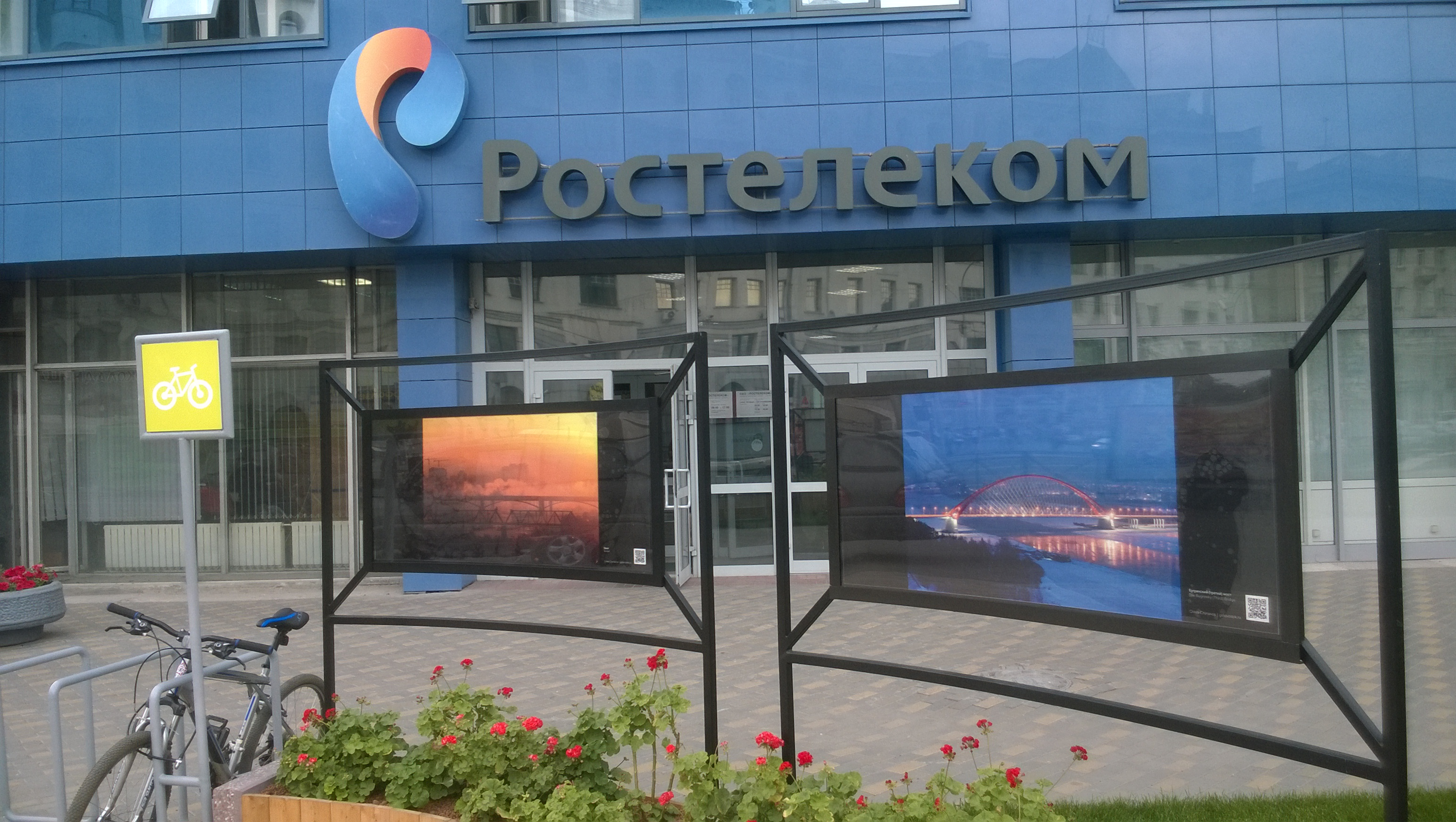 Rostelecom in Novosibirsk.